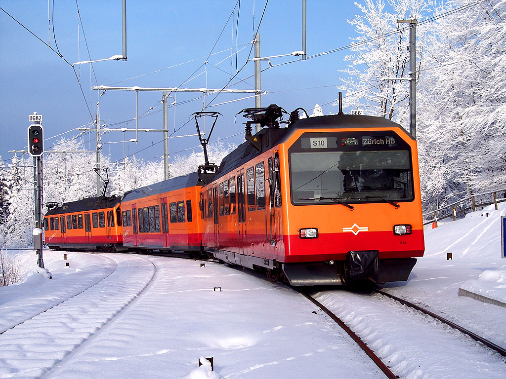 An S10 Uetlibergbahn train of Sihltal Zürich Uetliberg Bahn (SZU), tailed by Be 556 524, has just left Uetliberg station for Zürich HB.